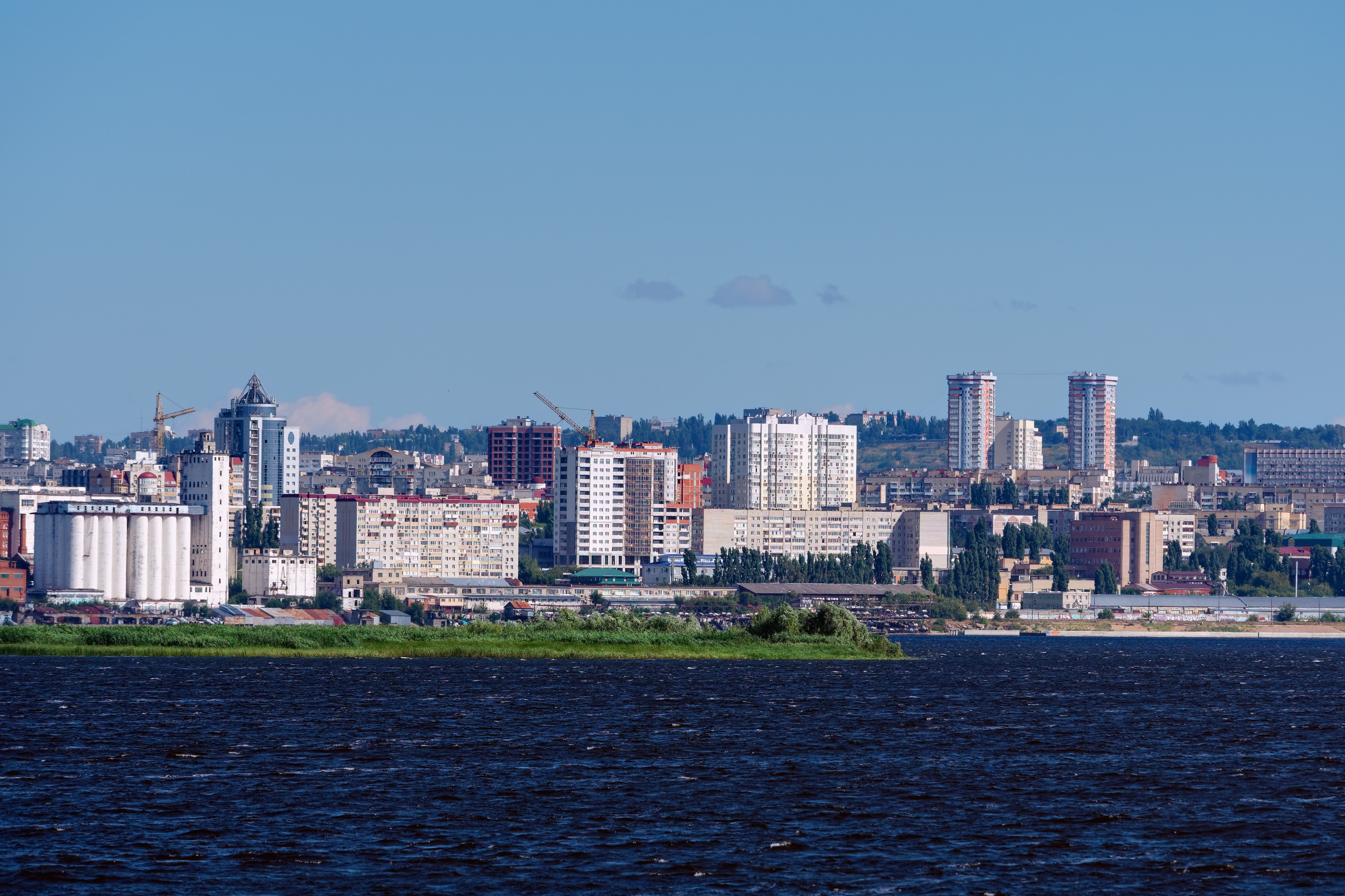 Saratov